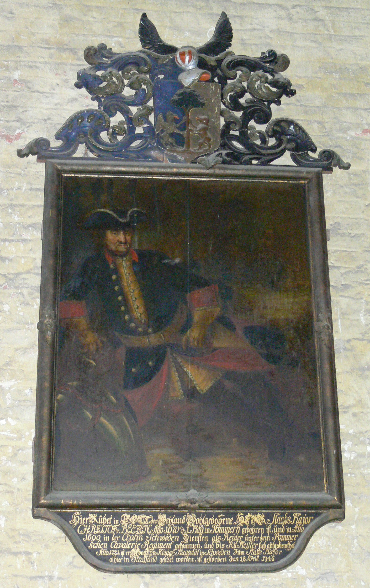 Own photo taken in the church